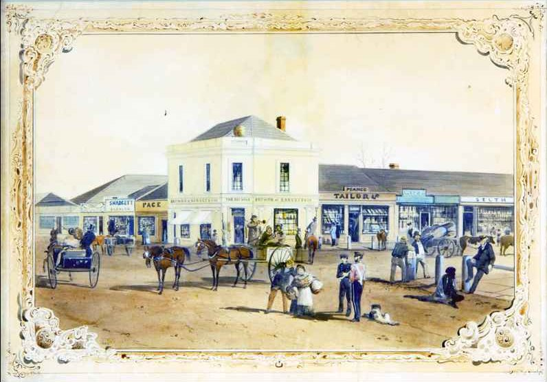 The Beehive Corner by S. T. Gill, 1849 - the corner of King William Street, Adelaide and then Rundle Street, Adelaide (now Rundle Mall)